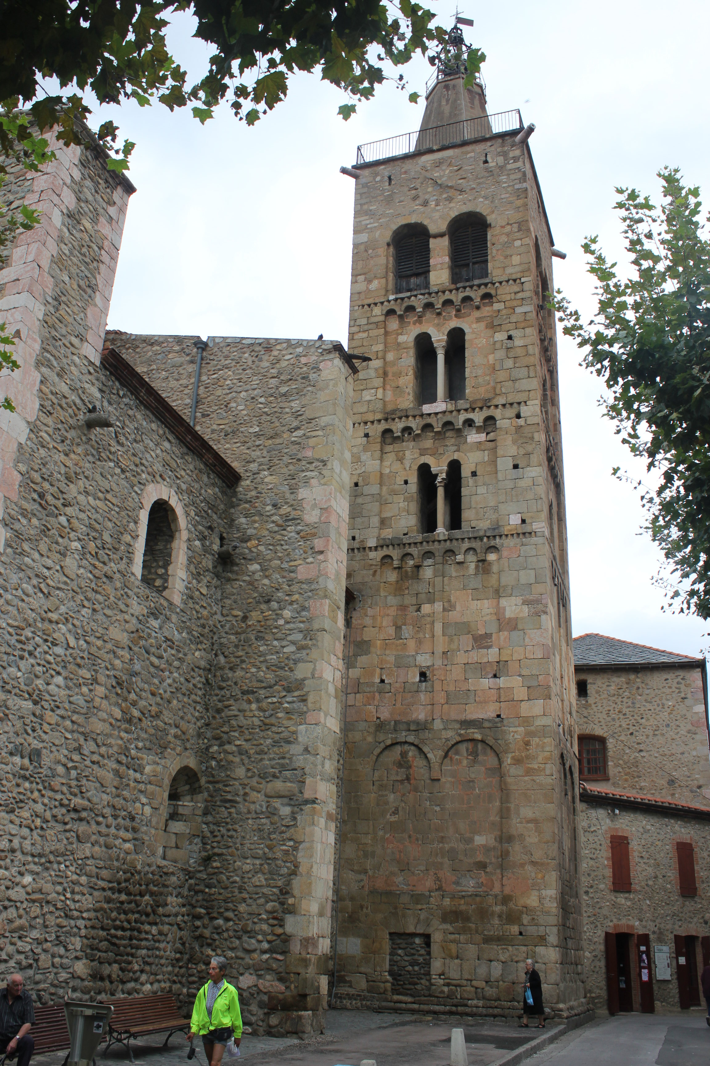 Saint-Pierre church, in Prades